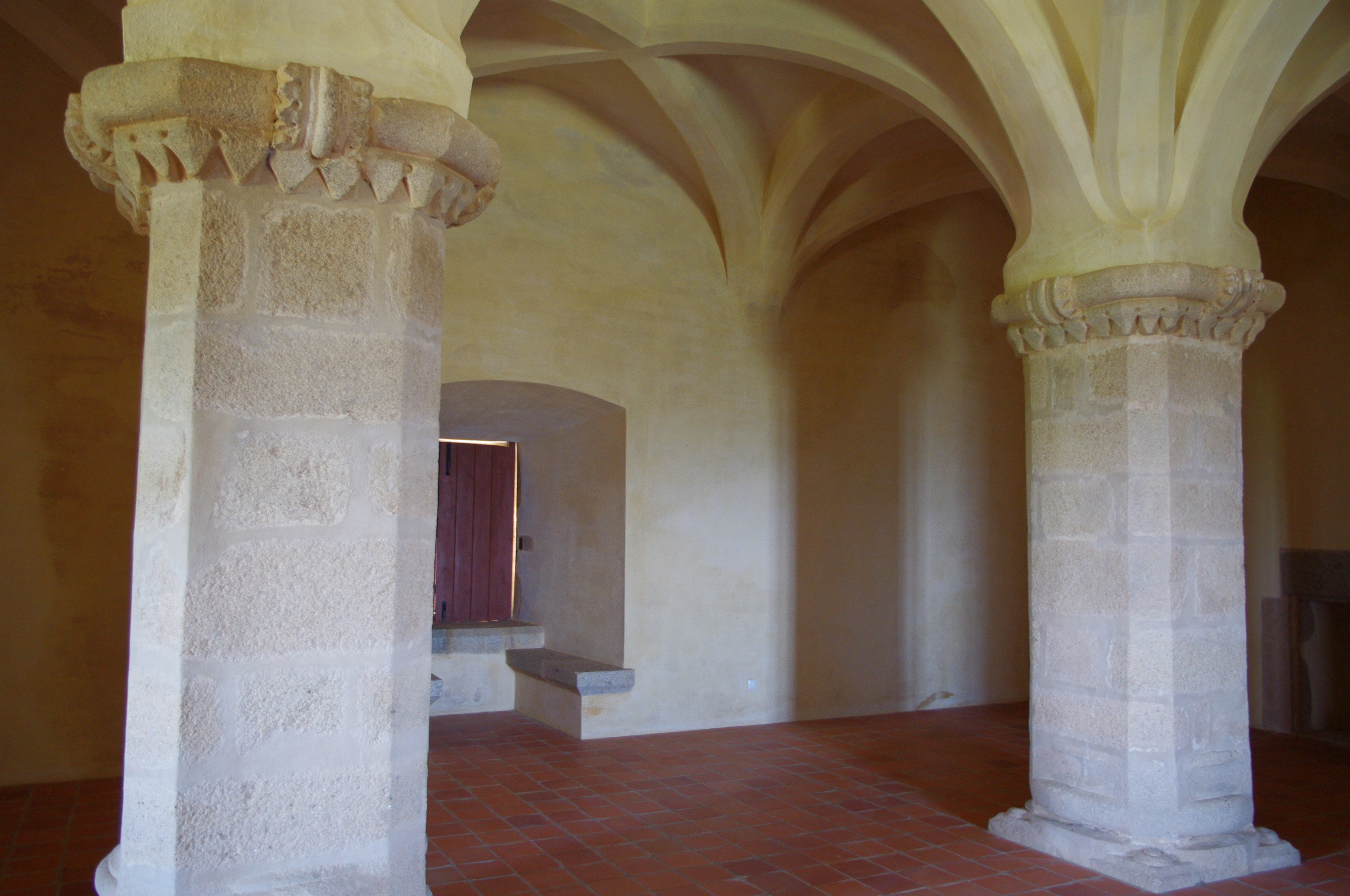 These columns from the first floor of the Ducal Palace of Evoramonte are topped with a "garter and buckle" design representing the Order of the Garter, the highest level of knighthood in the order of chivalry established in England in 1348. The fact that it is also used in Portugal reflects the deep bonds between the two countries that began during the reconquest of Portugal from the Moors and continues to this day.